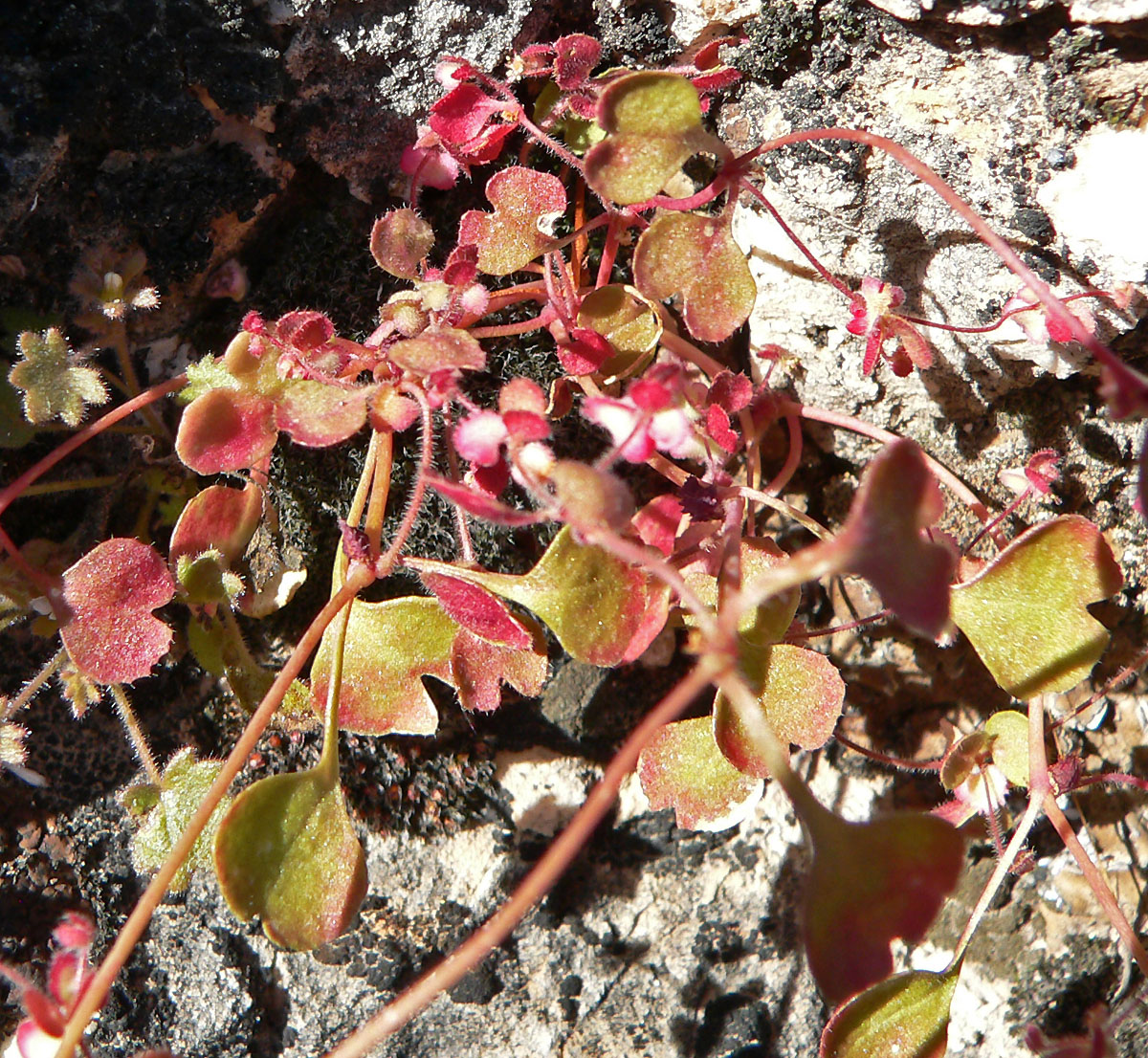 Pterostegia drymarioides in the rocks on the north side of the canyon at the west end of Cheyenne Ave, Las Vegas, Nevada (Lone Mountain area)